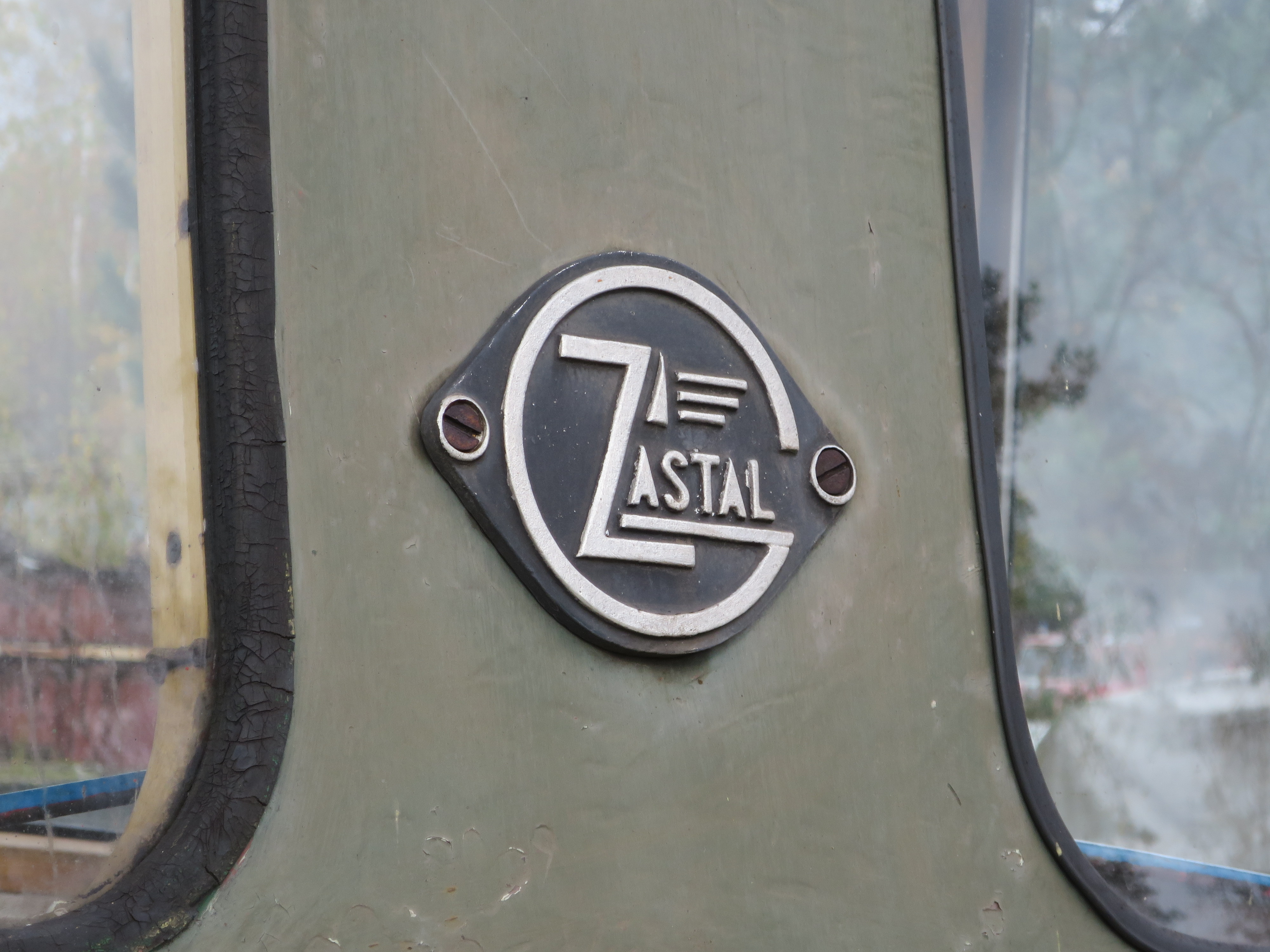 This photo was taken during Wikiexpedition 2016 set up by Wikimedia Polska Association. You can see all photographs in categories Wikiekspedycja Opolska 2016 (Polish part) and Mediagrant III:Wikiexpedice Slezsko (Czech part).